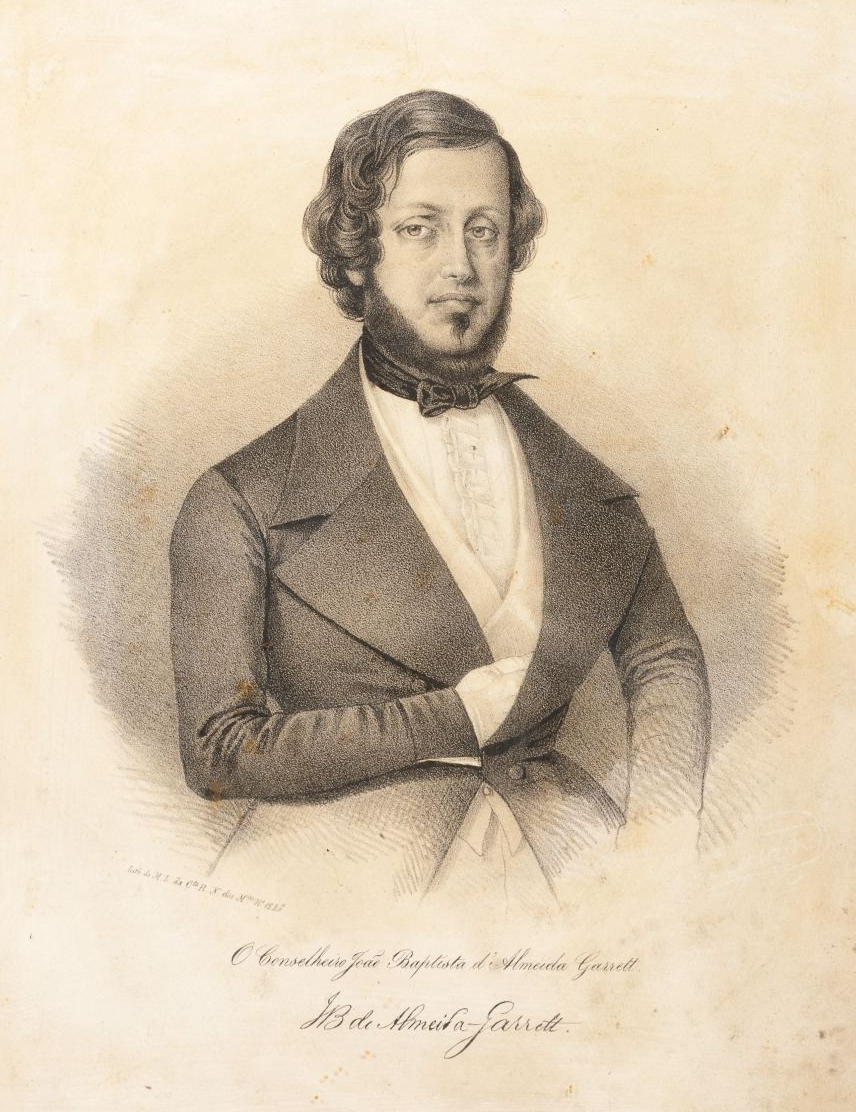 Lithograph on paper, depicting Almeida Garrett, Portuguese politician, poet and playwright.